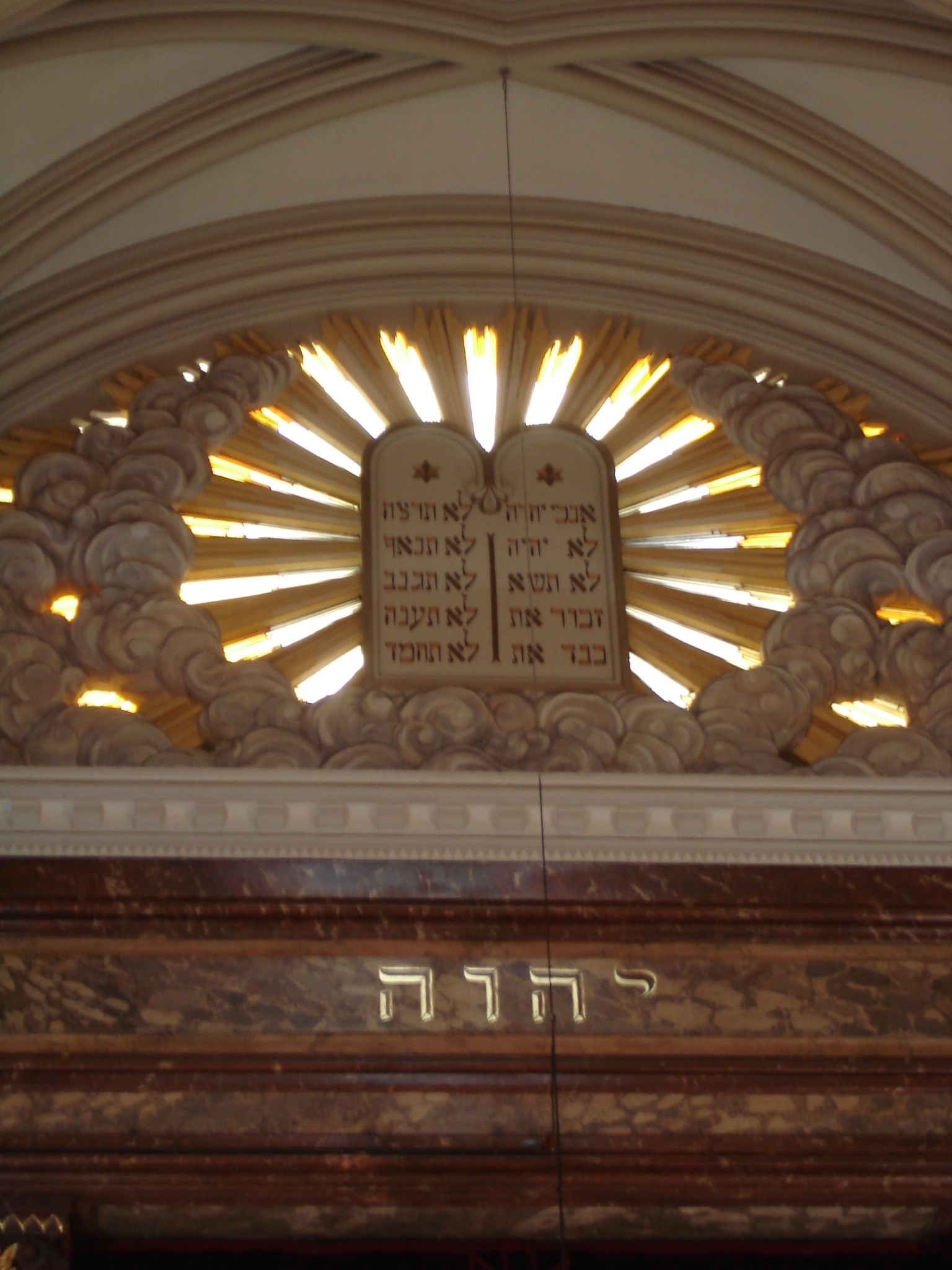 Synagogue Buffault (Paris)Decalog